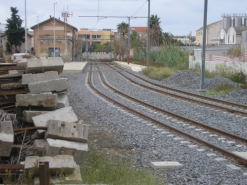 The former FdS railway station of Cagliari-Pirri, in Cagliari, Sardinia, Italy, closed in 2008